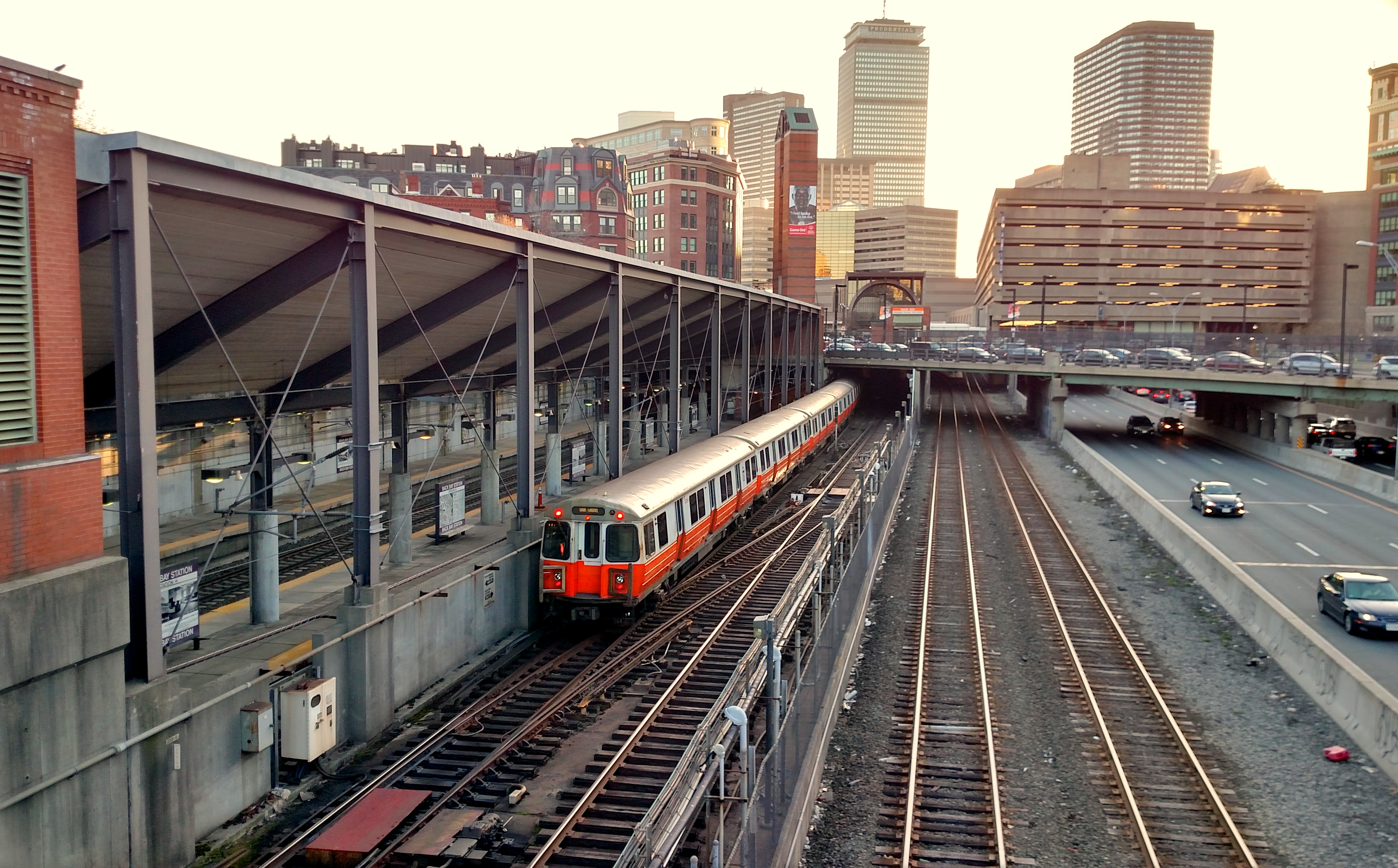 An inbound Orange Line train leaving Back Bay station in April 2016